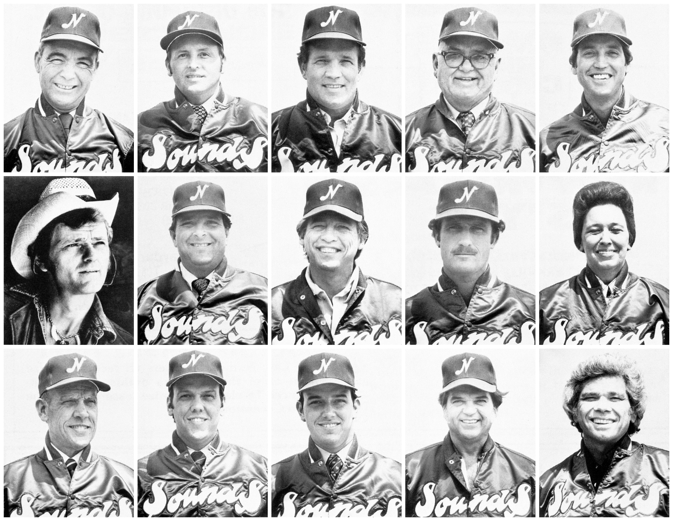 The 15 shareholders of the Nashville Sounds Minor League Baseball team of the Southern League in 1978. Left to right, top to bottom: Bob Elliott, Billy Griggs, Jimmy Miller, Walter Nipper, Farrell Owens, Jerry Reed, Larry Schmittou, Cal Smith, Gene Smith, Marcella Smith, Reese Smith Jr., Reese Smith III, Steven Smith, Conway Twitty, and L.E. White